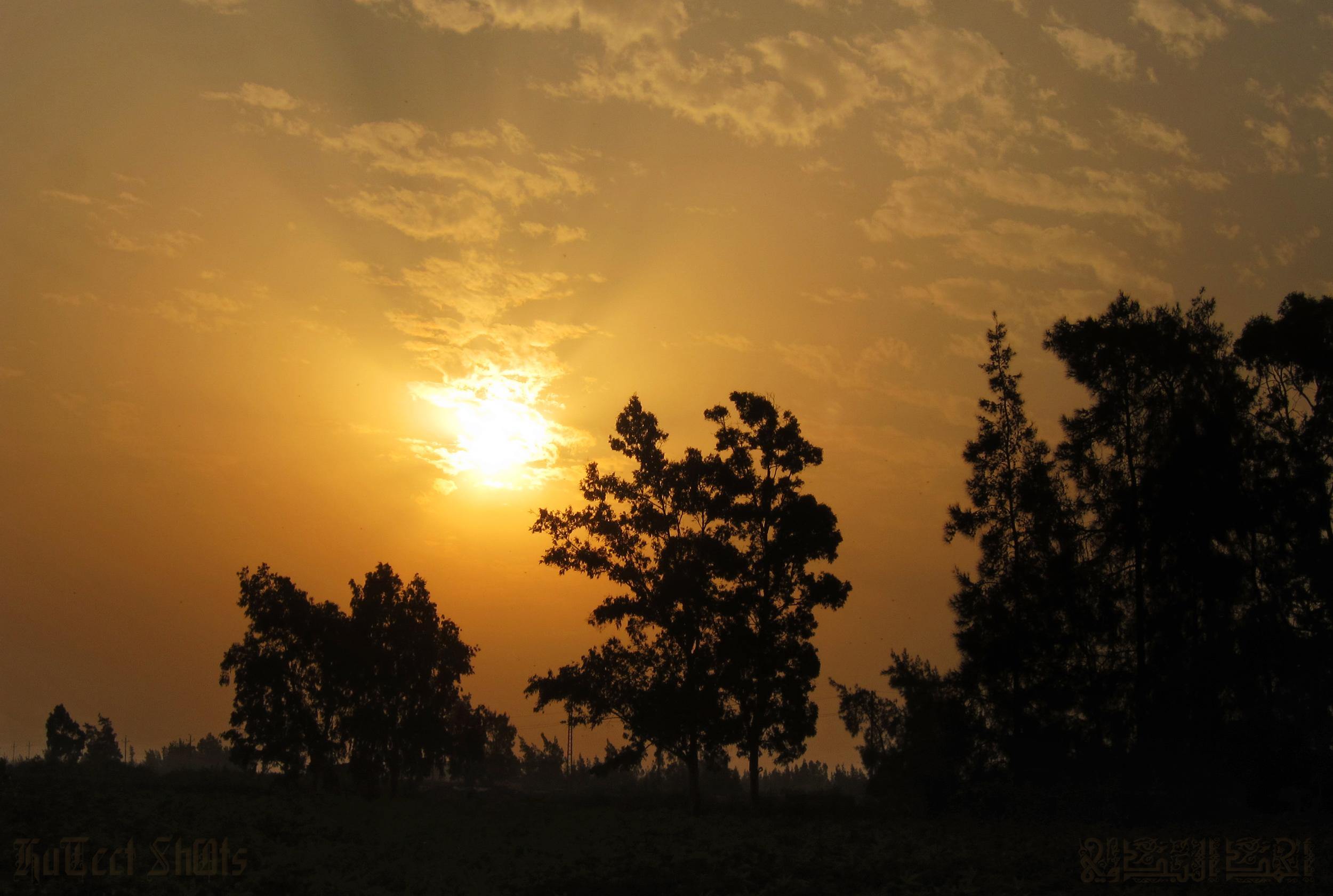 Sun Light / El.Mansoura / Egypt - 03 08 2010